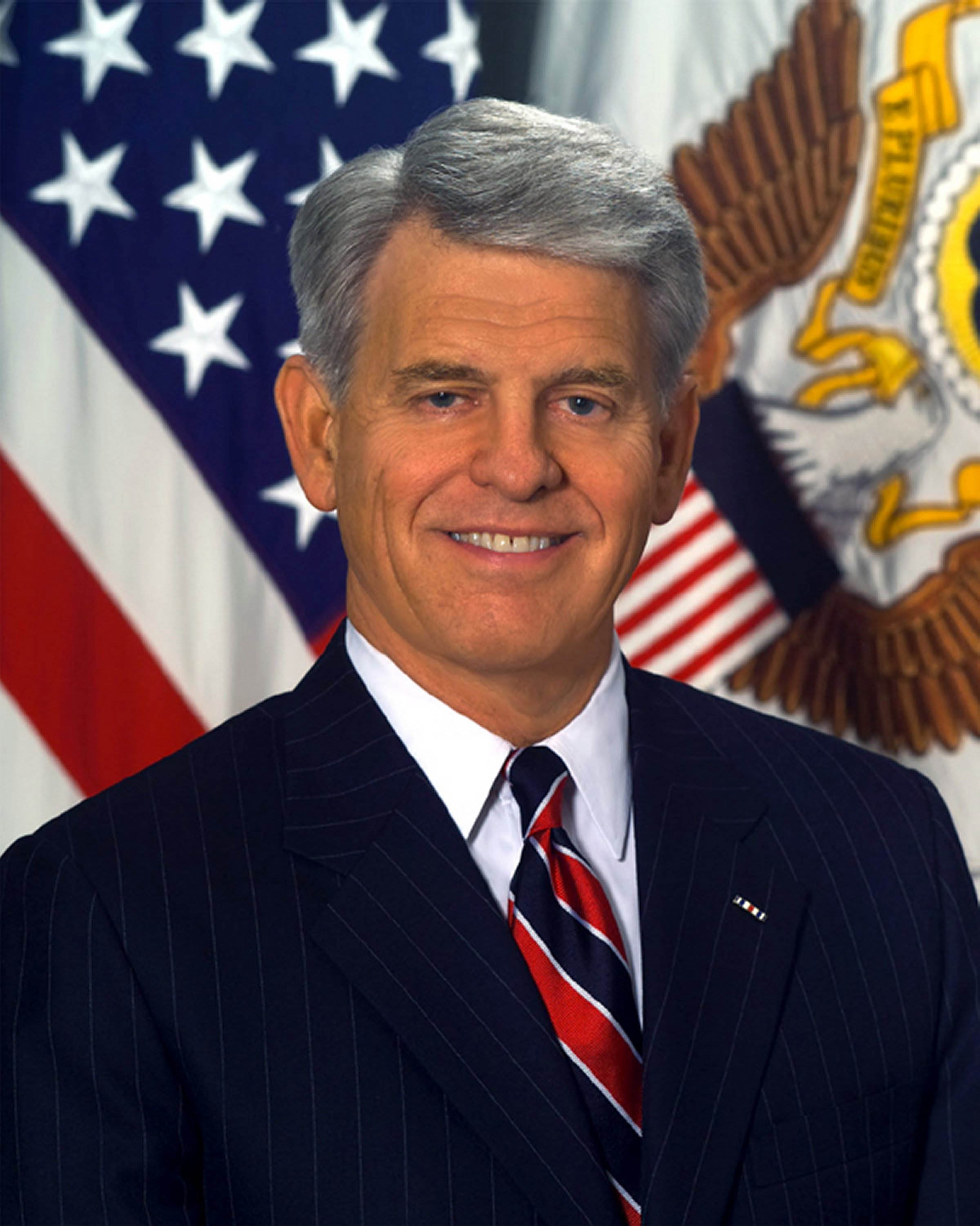 Official DoD photo of former acting Secretary of the Army Les Brownlee.